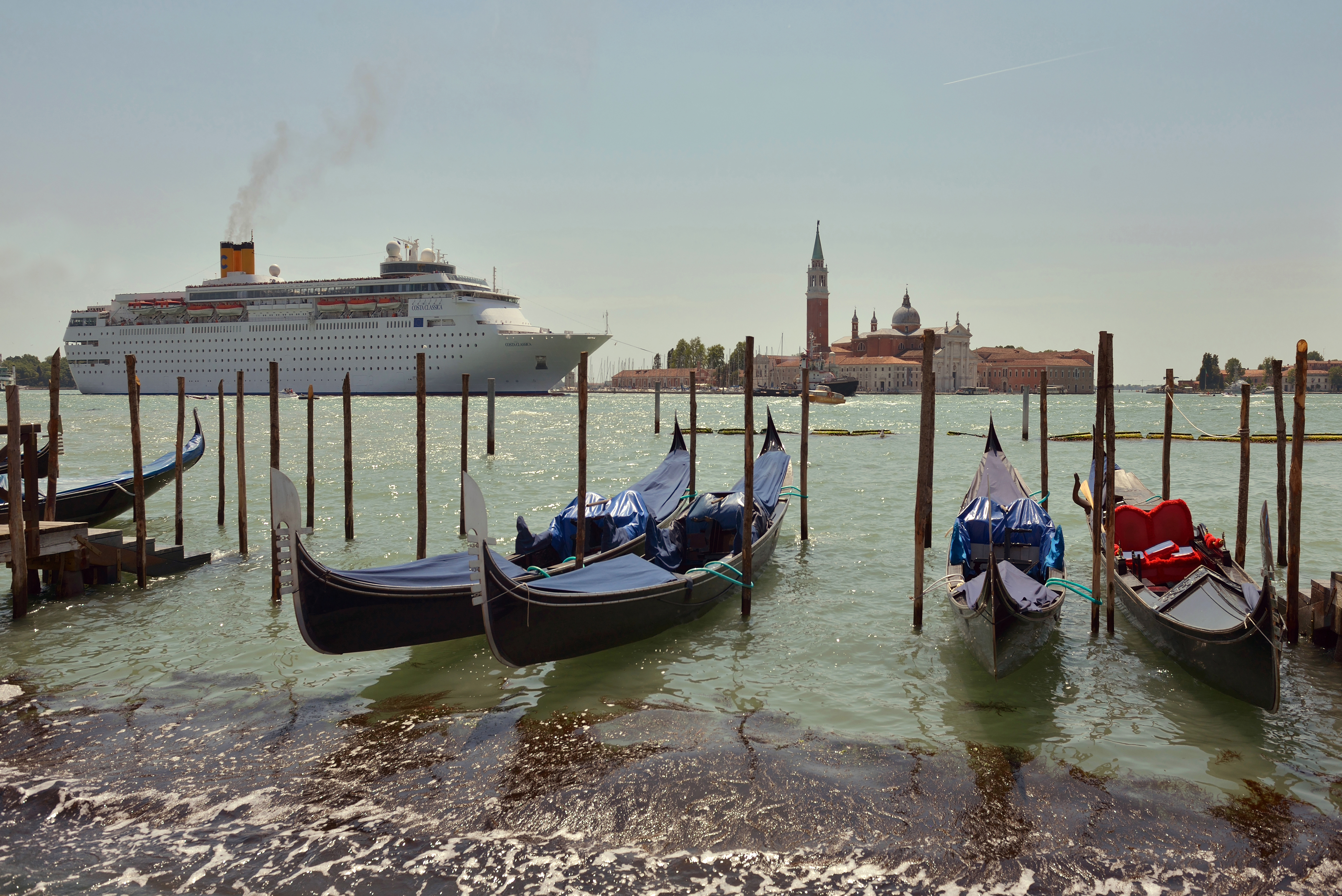 The cruiseship Costa neoClassica and gondolas in Venice.